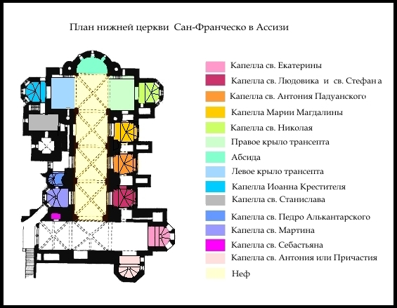 Plan of the lower church of Assisi